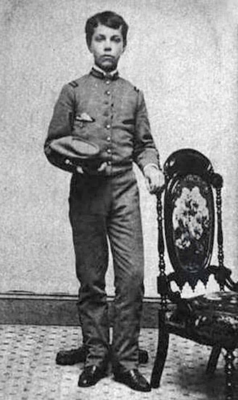 L. Frank Baum (1856–1919) served for two years as a cadet at the Peekskill Military School, which overlooked the Hudson. He was about 12 years old in this 1868 photograph.